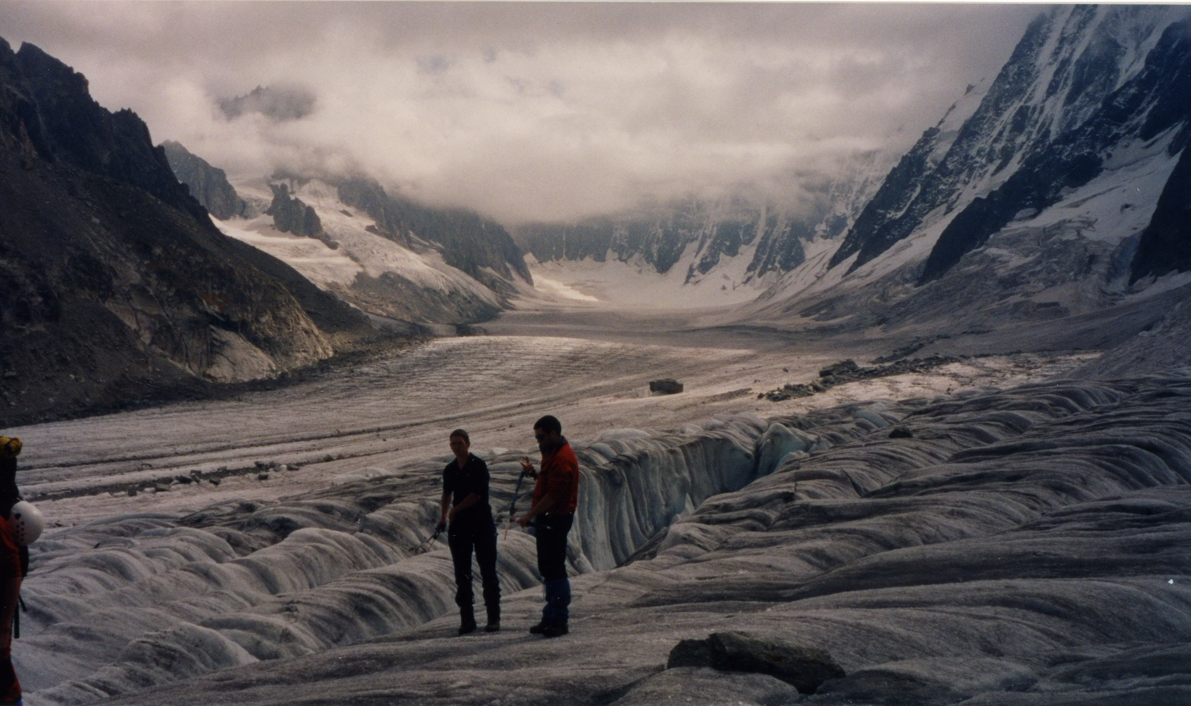 Looking out over Argentiere Glacier. It was very much a case of 'so how do you use these ice axes?!?!?' :)